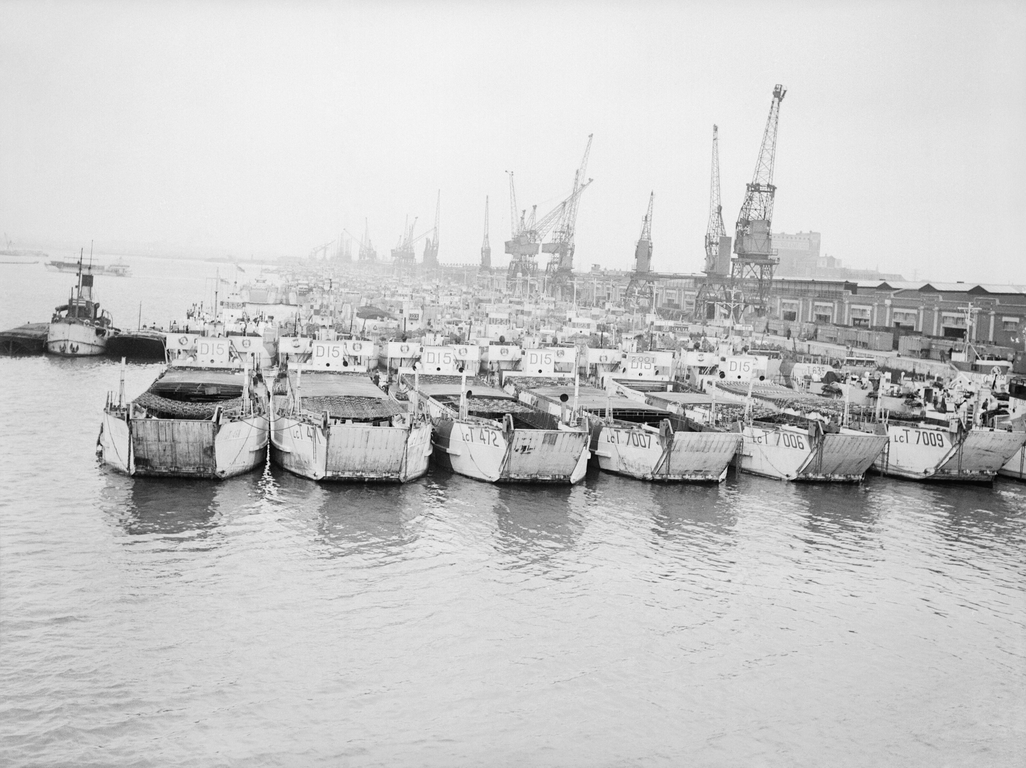 Britain's Landing Craft Wait For D-day. June 1944. Southampton. Landing craft massed along the quayside.